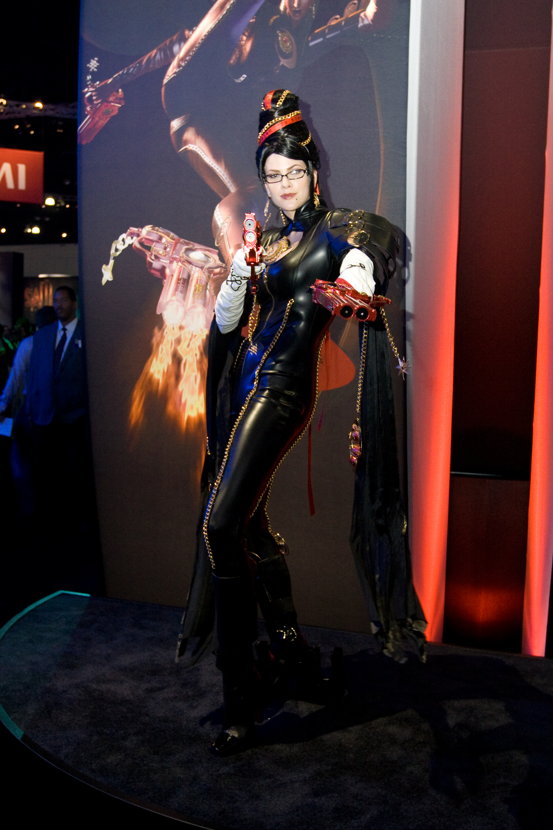 Promotional model for the game Bayonetta.